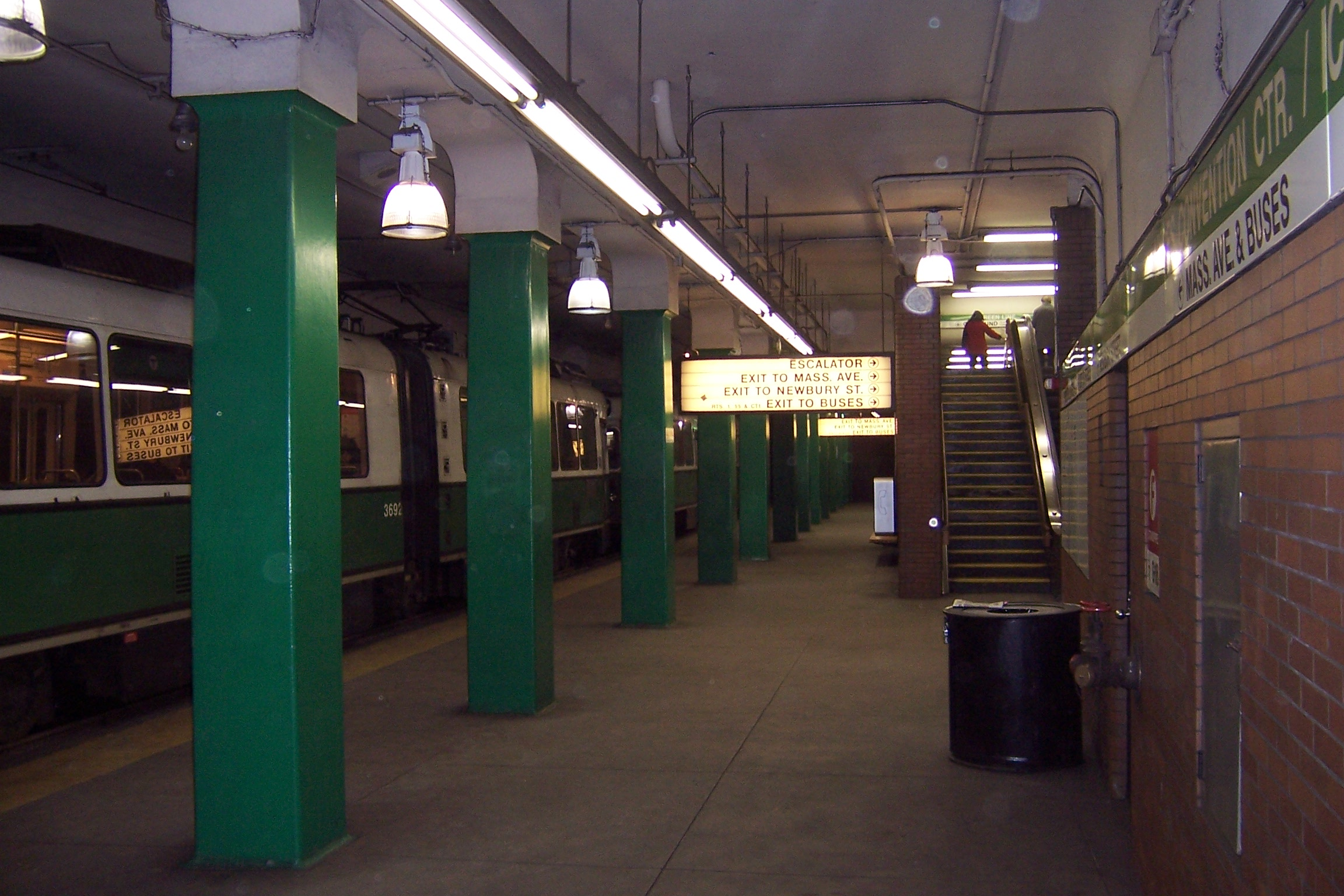 Hynes Convention Center/ICA station on the MBTA Green Line in 2005.